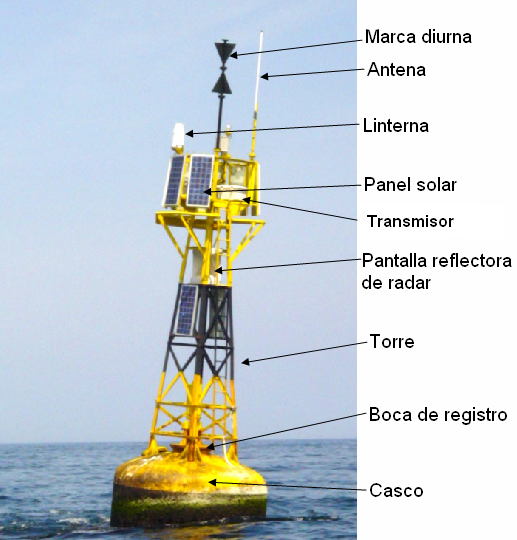 bouy parts